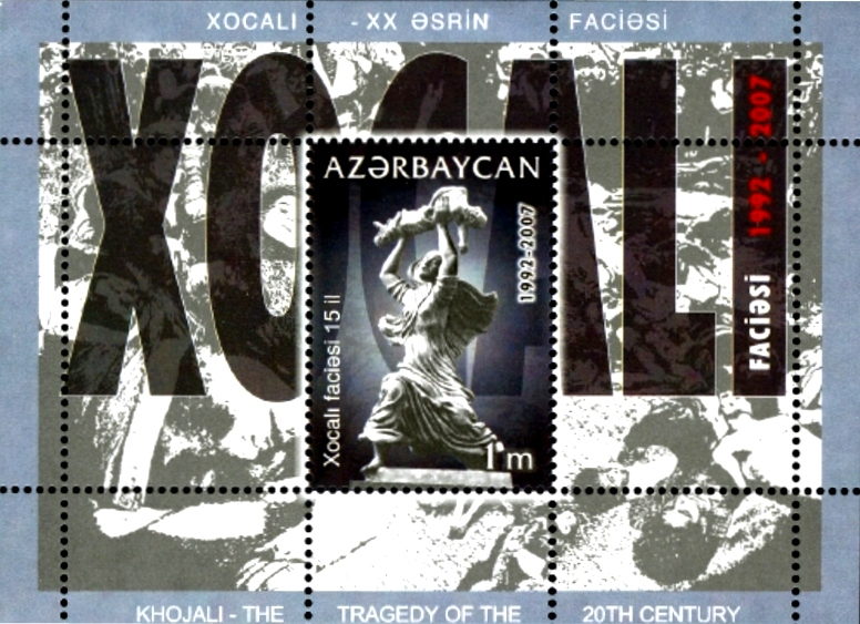 Stamp of Azerbaijan